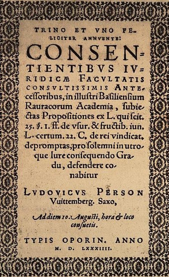 Consentientibus iuridicae facultatis consultissimis antecessoribus, 1584